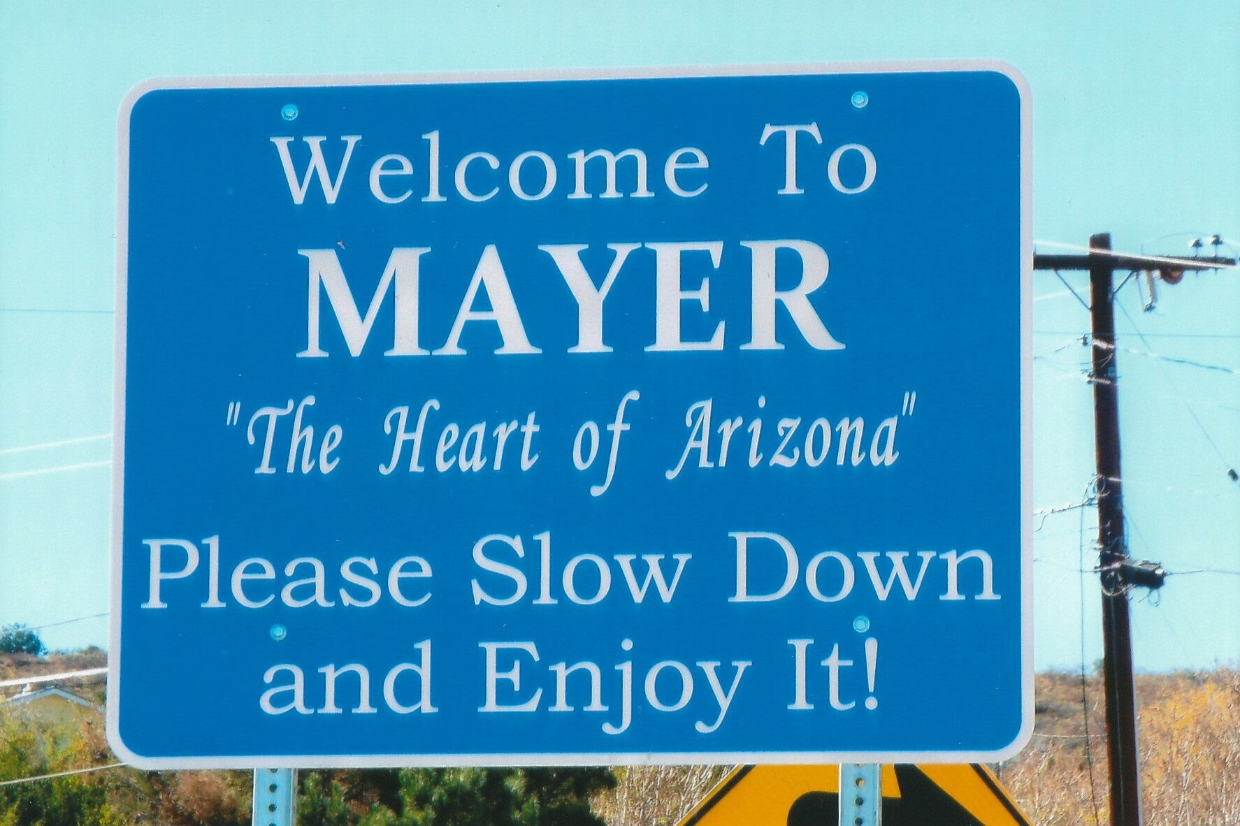 Welcome to Mayer, Arizona sign